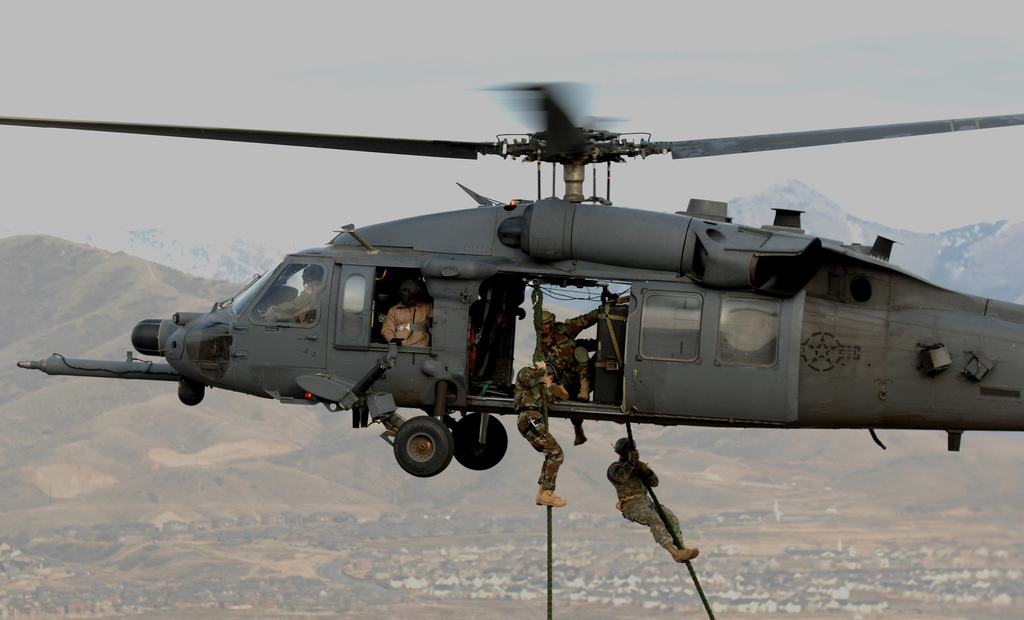 U.S. Army Soldiers from the 19th Special Forces, Utah National Guard are lifted on board an Air Force HH-60 Pave Hawk helicopter over the Utah Test and Training Range Nov. 9, 2007, during combat search and rescue (CSAR) integration exercise. The training was given by Airmen from the 34th Weapons Squadron, United States Air Force Weapons School out of Nellis Air Force Base, Nev. The exercise\'s objective was to expand expertise and integration with Utah\'s 211th Aviation Group AH-64 Apache Joint Rotary Wing, 4th Fighter Squadron F-16 Fighting Falcon Striker assets, 19th Special Operations Forces, and conduct extensive joint CSAR operations against surface to air threats. (U.S. Air Force photo by Master Sgt. Kevin J. Gruenwald)